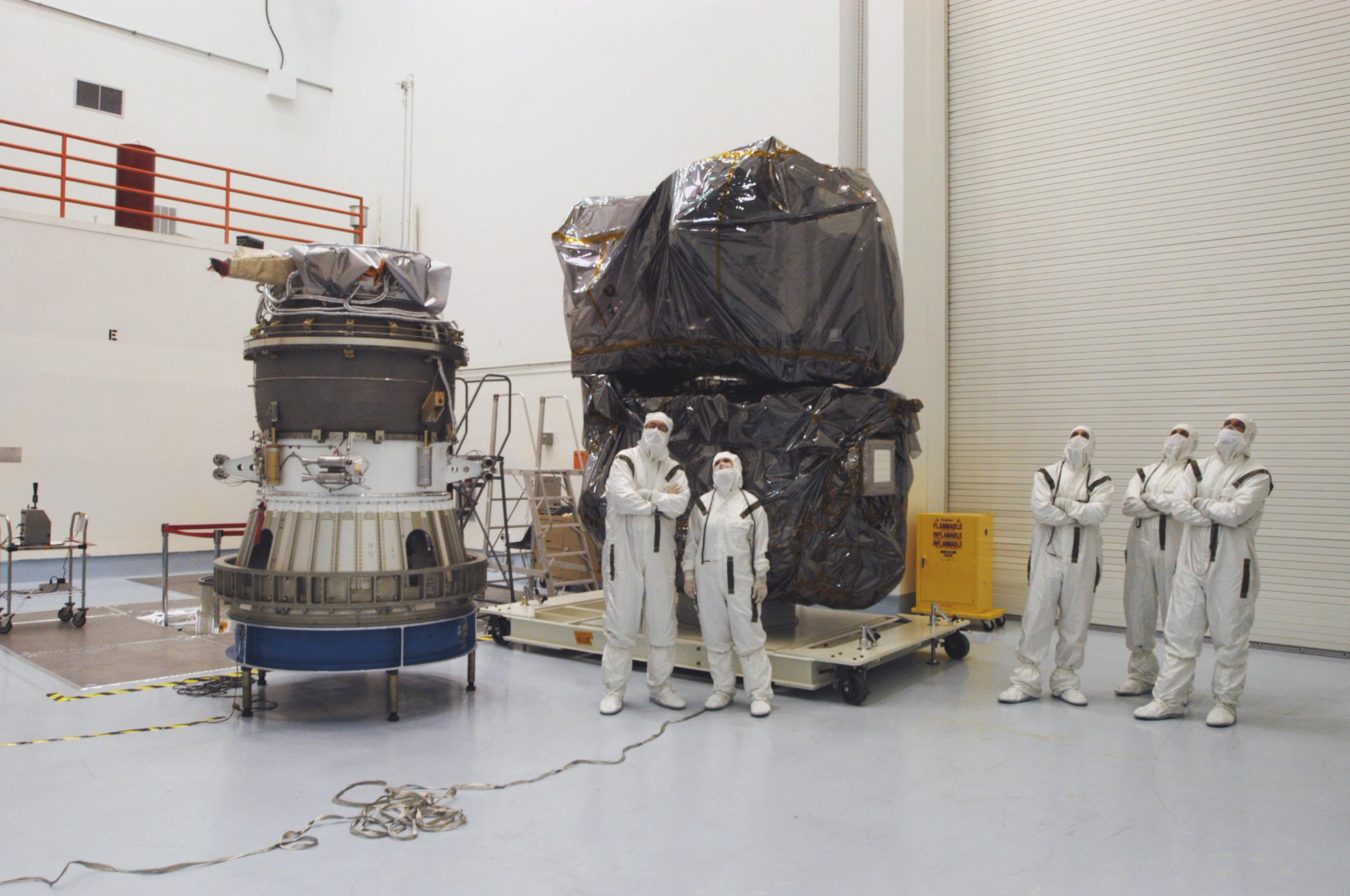 KENNEDY SPACE CENTER, FLA. – At Astrotech Space Operations in Titusville, Fla., workers look at the Delta third stage, or upper stage booster. In the background are the recently mated STEREO observatories, which is the launch configuration. STEREO, which stands for Solar Terrestrial Relations Observatory, is the first to take measurements of the sun and solar wind in 3-dimension. This new view will improve our understanding of space weather and its impact on the Earth. STEREO is expected to lift off aboard a Boeing Delta II rocket from Launch Pad 17-B at Cape Canaveral Air Force Station on Aug. 31.